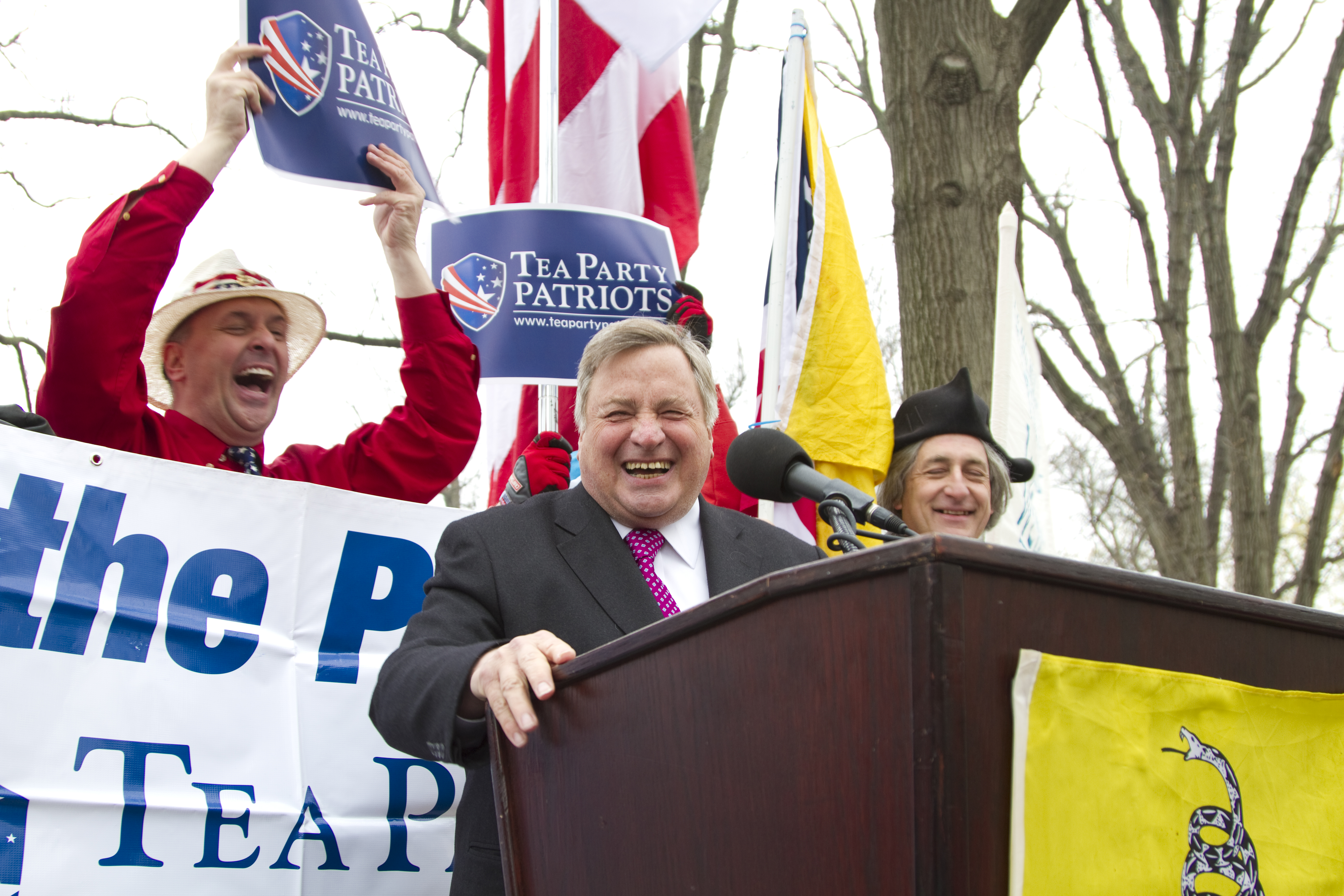 Dick Morris speaking in 2011